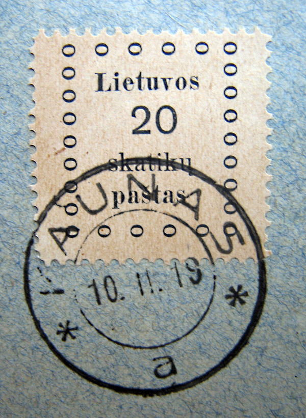 1st Kaunas issue, named Baltukas. January 29, 1919. Michel catalog No. 11. Kaunas cancelled on 10.II.19.